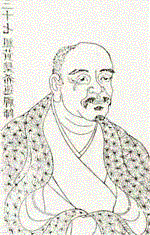 Porttrait of chan master Huangbo